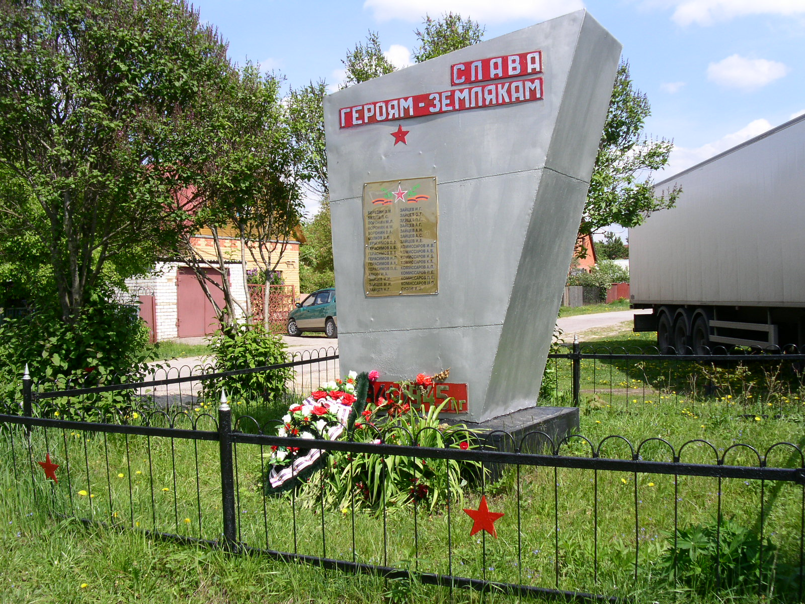 Monument in the village Kudykino